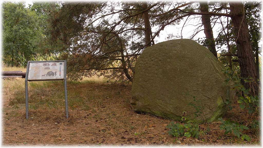 Schalenstein Drethem